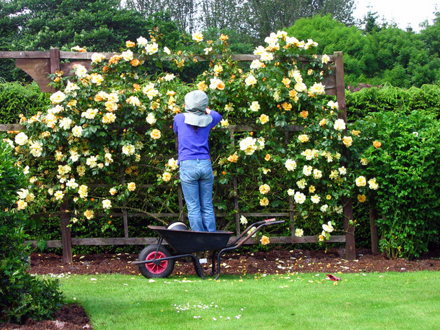 The Rose Garden at Drum Castle A gardener stands on her barrow to work on the roses